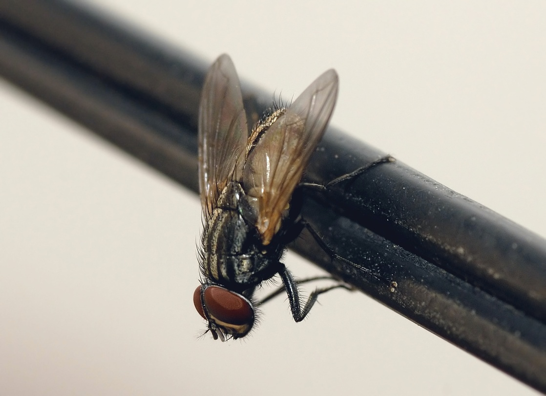 Housefly (Musca domestica) sitting on a stretched cable.